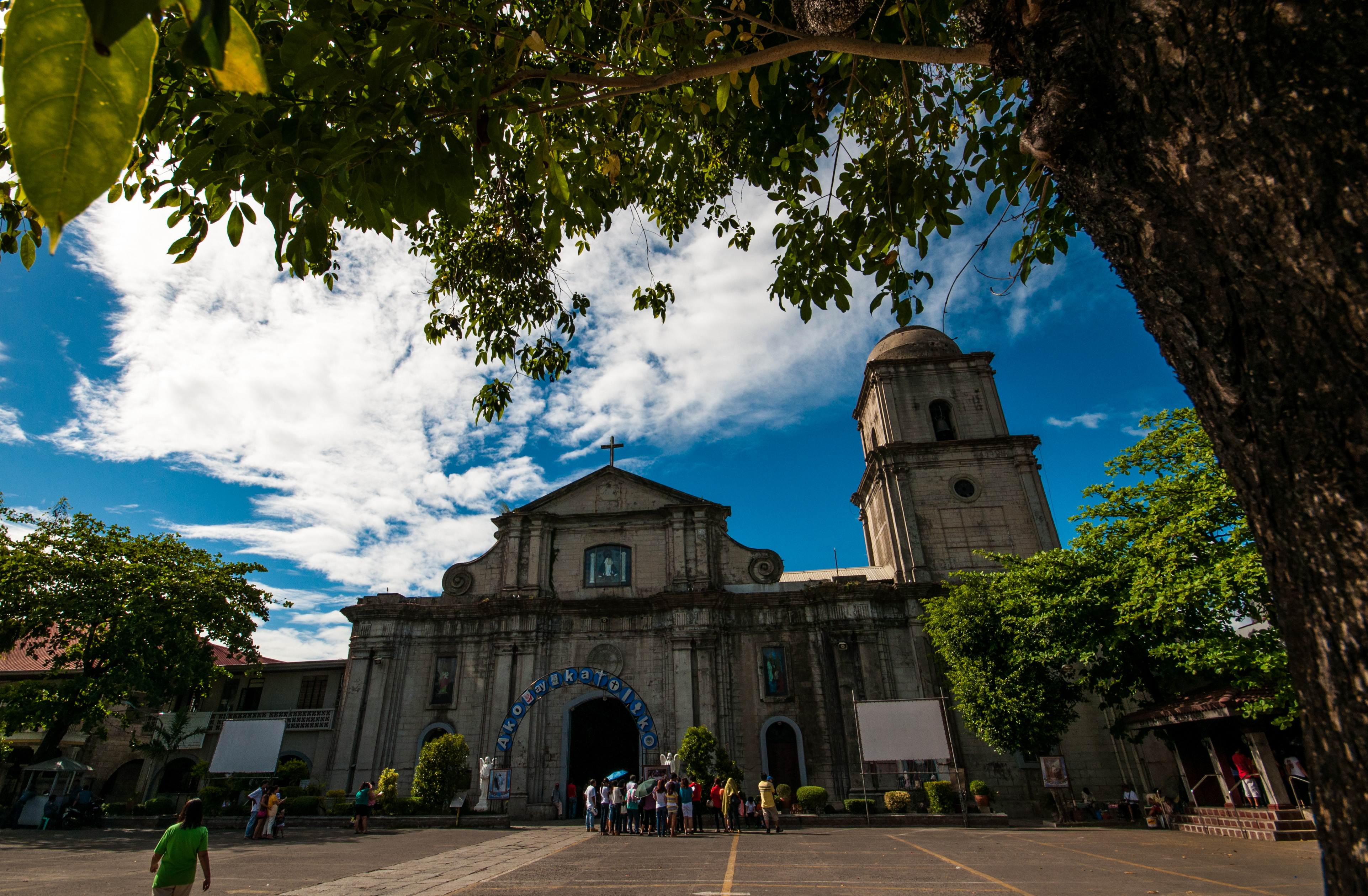 Imus Cathedral as it is known for which is also called as Cathedral of Our Lady of the Pillar. Which is located in Imus, Cavite, Philippines where the bishop of Diocese of Imus is seated.